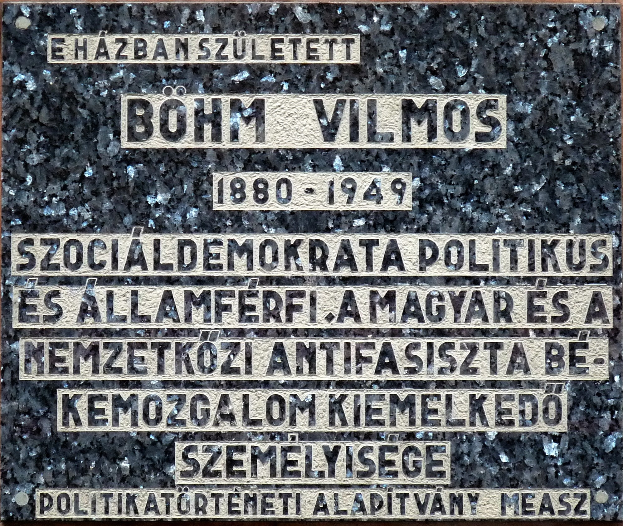 Commemorative plaque to Mr. Vilmos Böhm (1880–1949) Hungarian Social Democratic politician, affixed to the house where hi was born. (Budapest, District VII, Akácfa Street Nr 4).